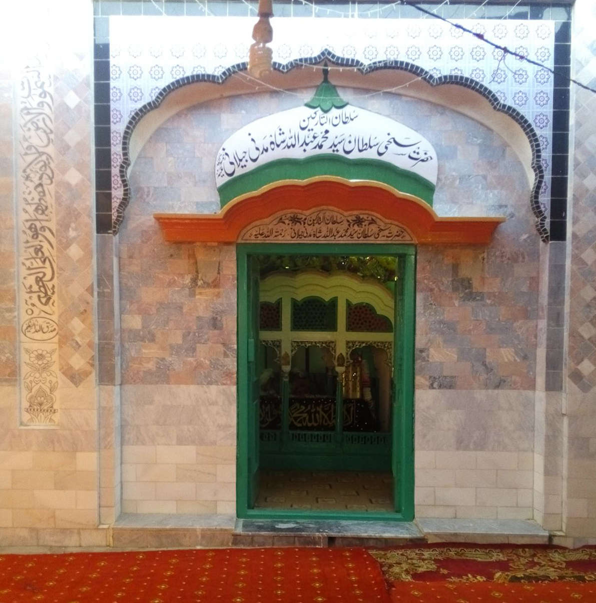 The door of the shrine of Sultan ul Tarikeen Hazrat Sakhi Sultan Syed Mohammad Abdullah Shah Madni Jilani located at Ahmedpur Sharqah, Pakistan.